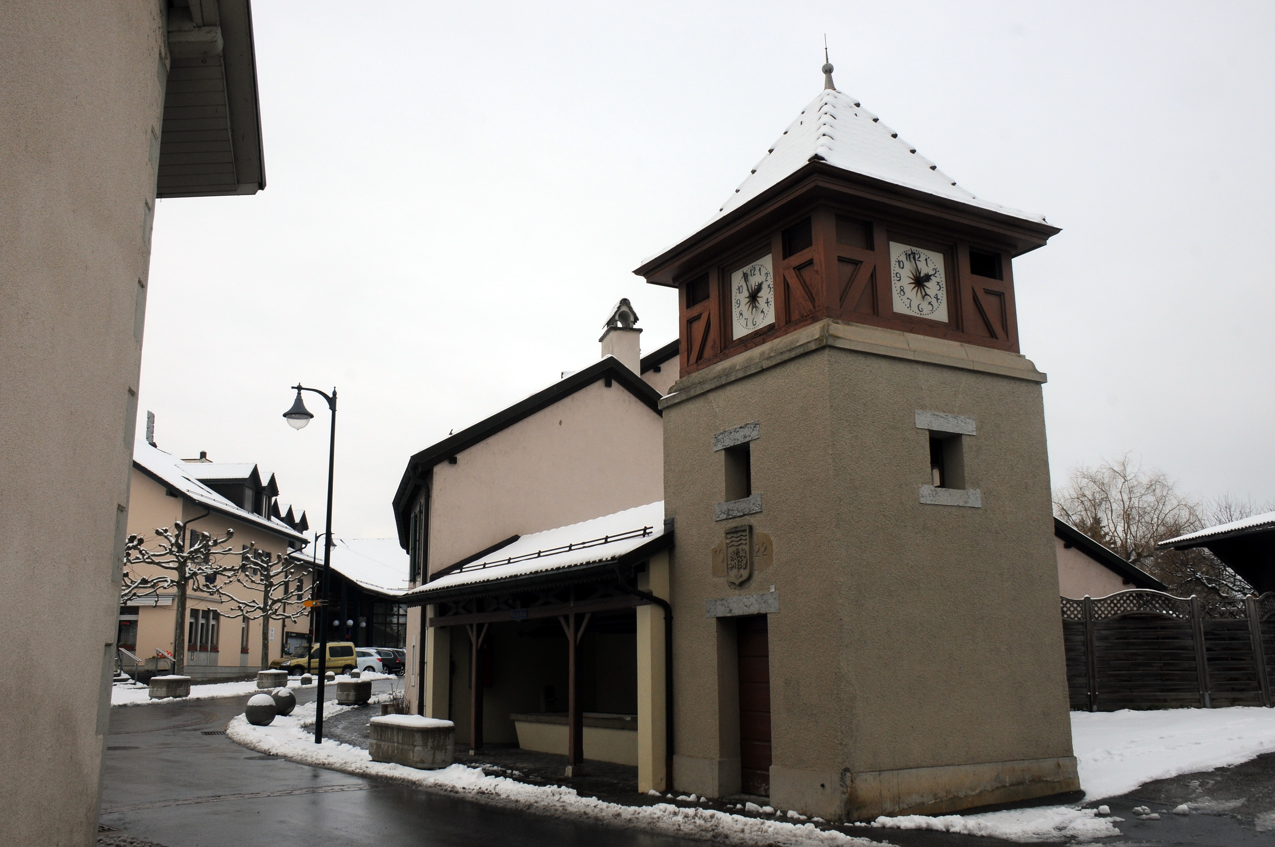 Old tower of 1922 at Tannay near Lake Geneva